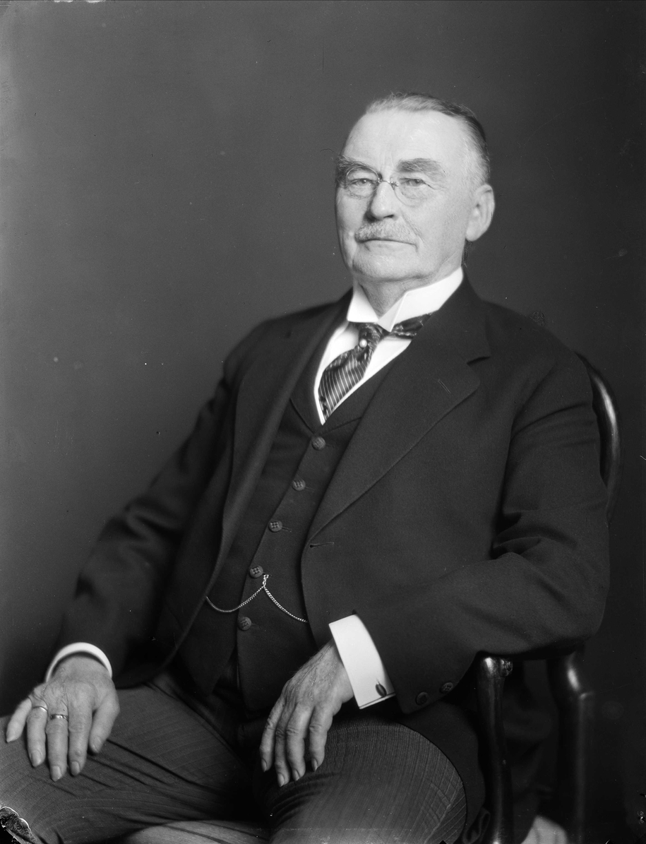 Norwegian brewer Christian Langaard (1849–1922).